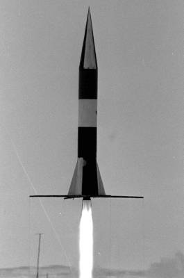 Al-Zafer 1